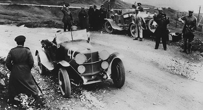 Gastone Brilli-Peri and Bruno Presenti in Alfa Romeo RLSS 22/90 at 1927 Mille Miglia